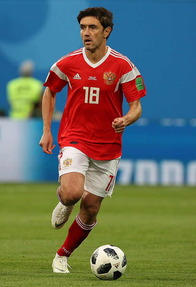 Yuri Zhirkov